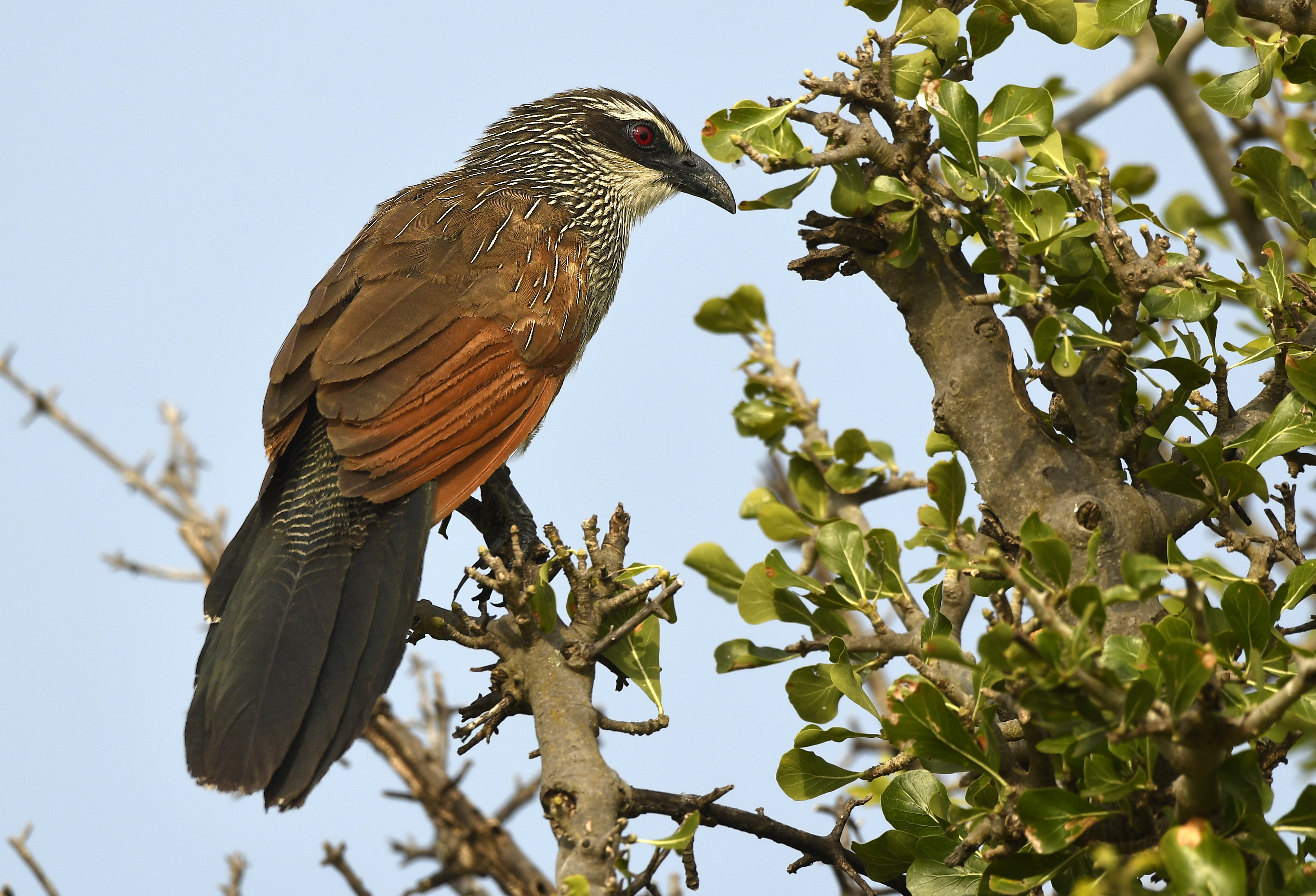 Taken at Masai Mara, Kenya in September 2019